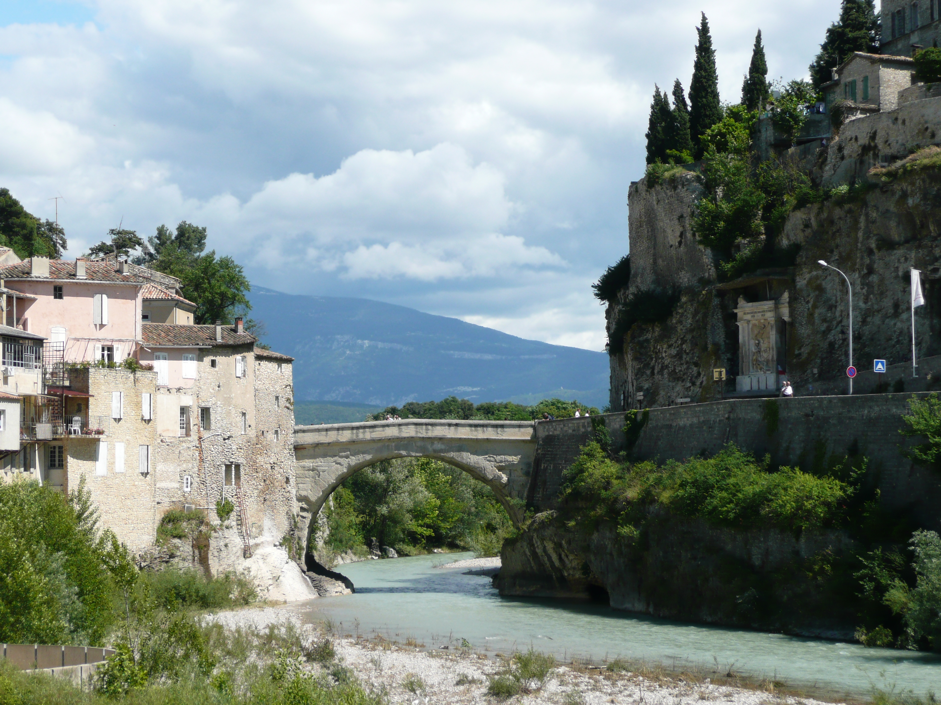 The Roman Bridge at Vaison-la-Romaine, Vaucluse department, Provence, France